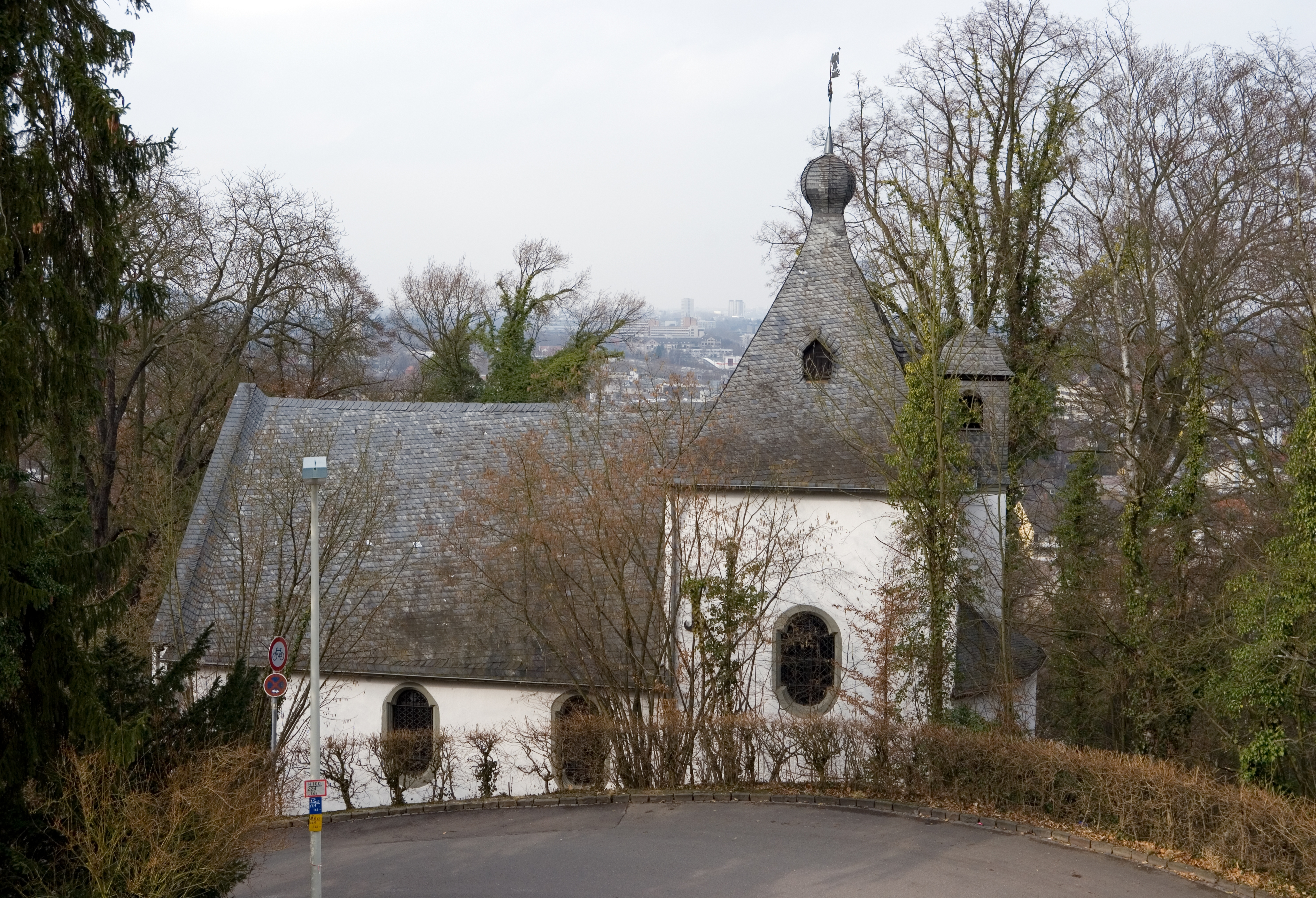 Bonn (North Rhine-Westphalia, Germany) – Bad Godesberg – St. Michael's Chapel – south facade This photograph was taken with a Nikon D3000.